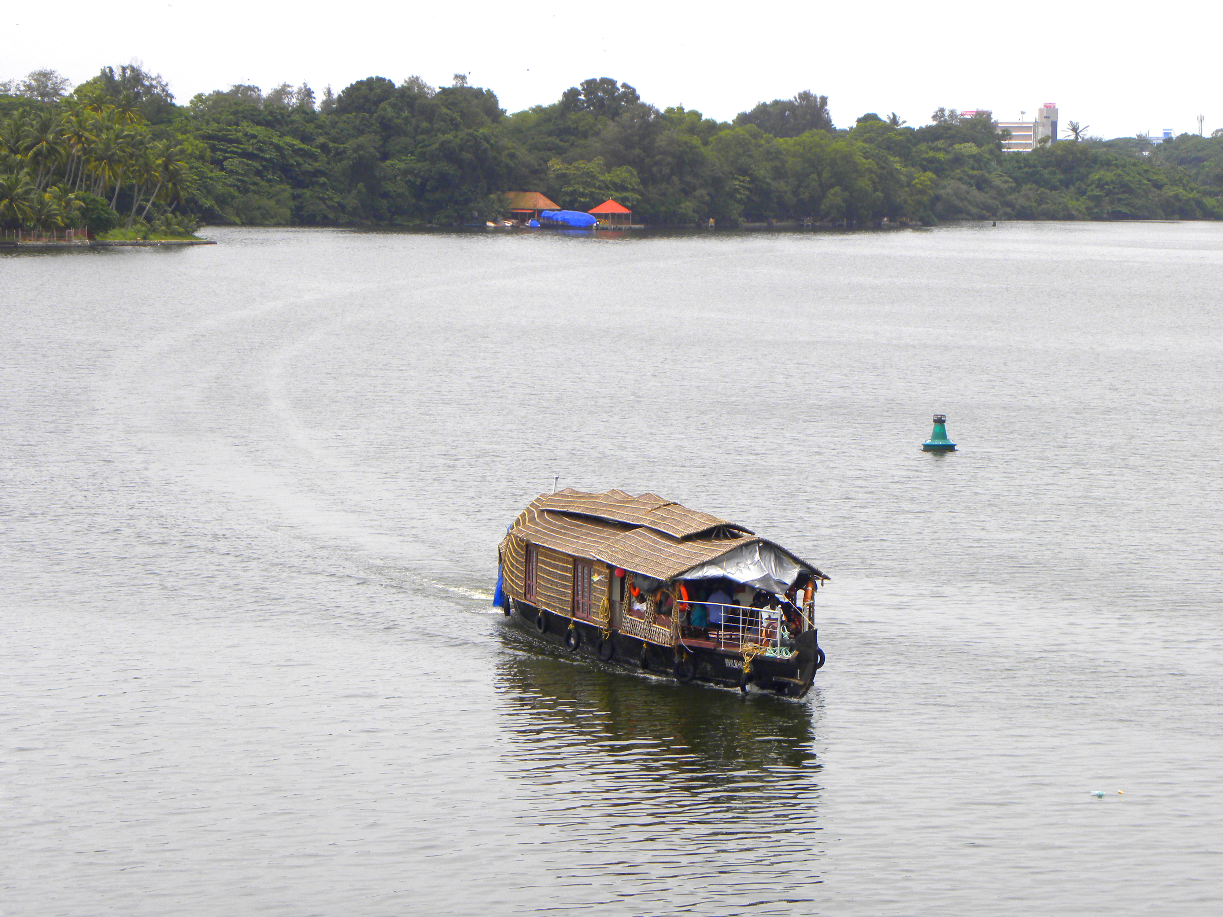 Ashtamudi Lake is a Ramsar site in India. It is the second largest lake in Kerala. A lion-share of the lake is coming under Kollam city region.